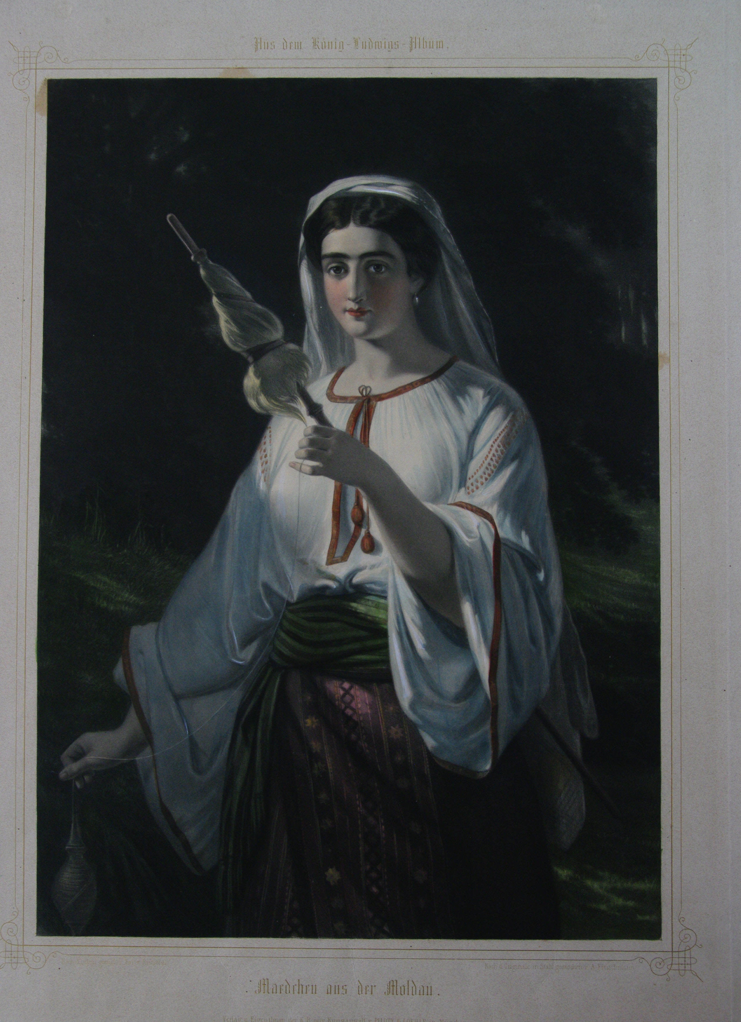 Aglaya Rosetti. Girls of Moldavia